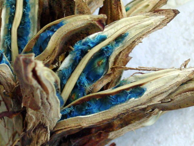 Open fruits of Ravenala madagascariensis, with blue seeds. Photo by M. A. P. Accardo Filho.